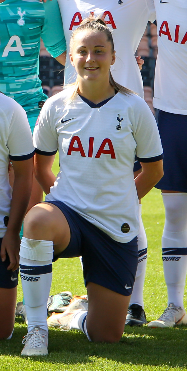 2019–20 FA WSL: Tottenham Hotspur FC Women v Liverpool FC Women, 15 September 2019 – Tottenham Hotspur starting line-up.